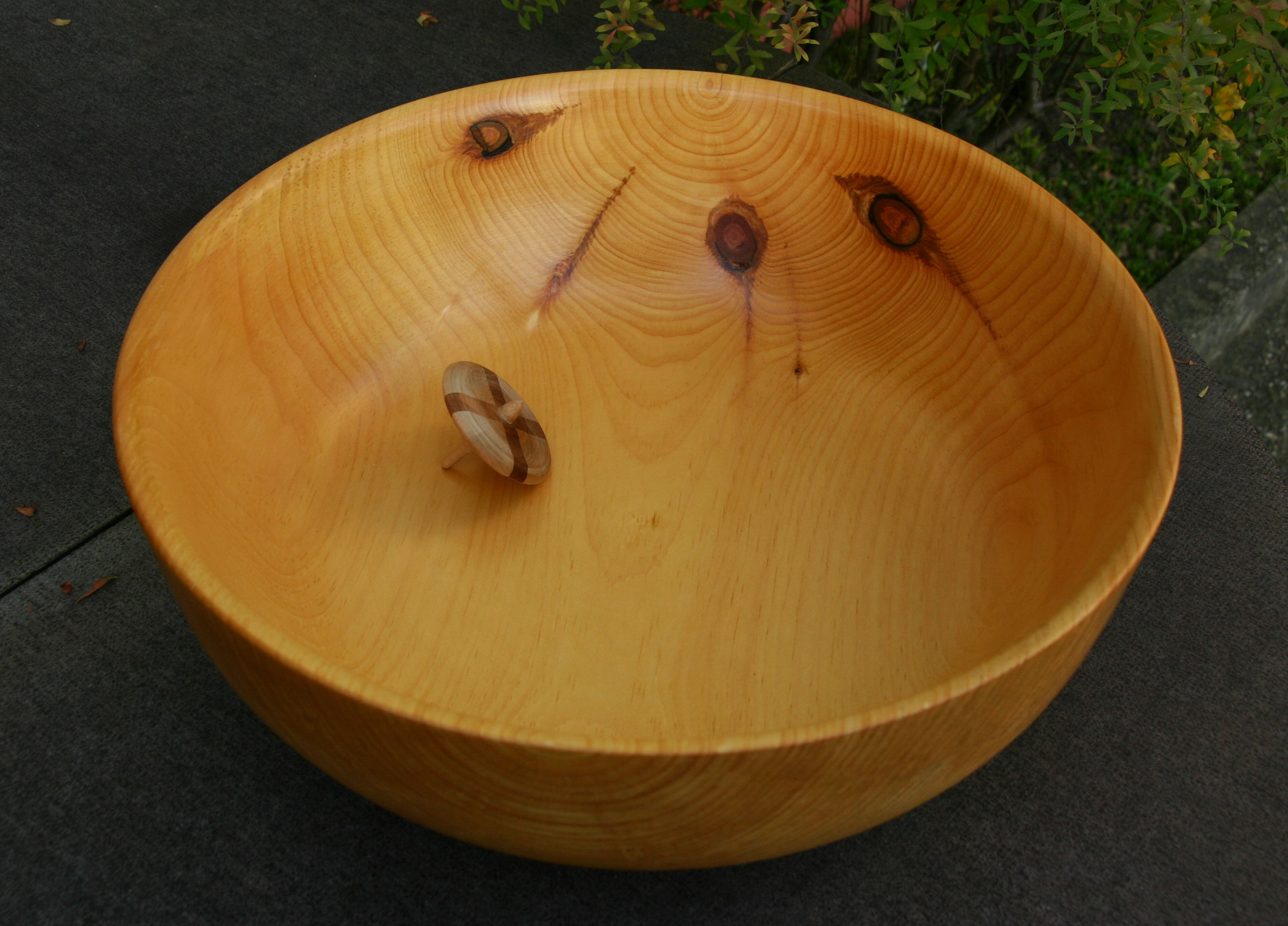 Woodturned bowl from stone pine. Work of Theo Eichmann, Rodalben, Germany.